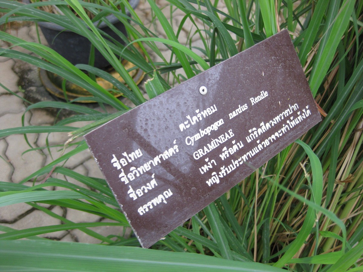 Photographed at the Queen Sirikit Botanic Garden (Chiang Mai Province, Thailand) in March